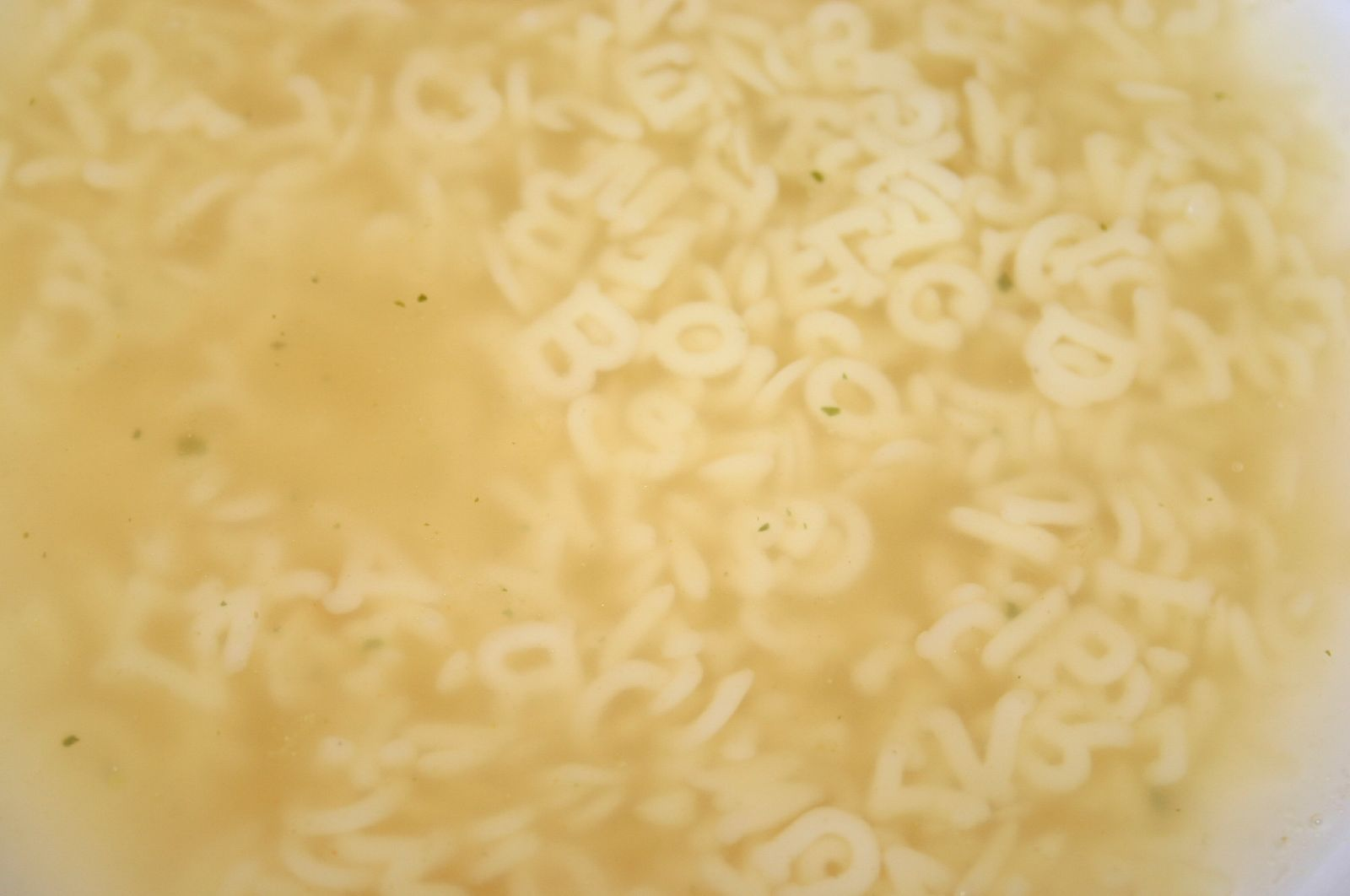 Alphabet pasta